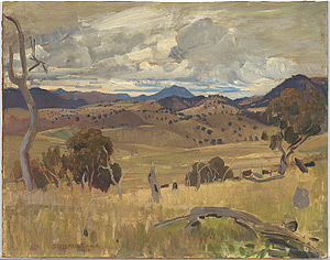 Michelago landscape [Michelago landscape (No.1)] 1923 Michelago / New South Wales / Australia Painting, oil on wood panel Primary Insc: signed and dated ' G.W. LAMBERT. A.R.A / 1923 ' lower left 33.5 h x 42.5 w cm Gift of Philip Bacon AM 2007 Accn No: NGA 2007.644